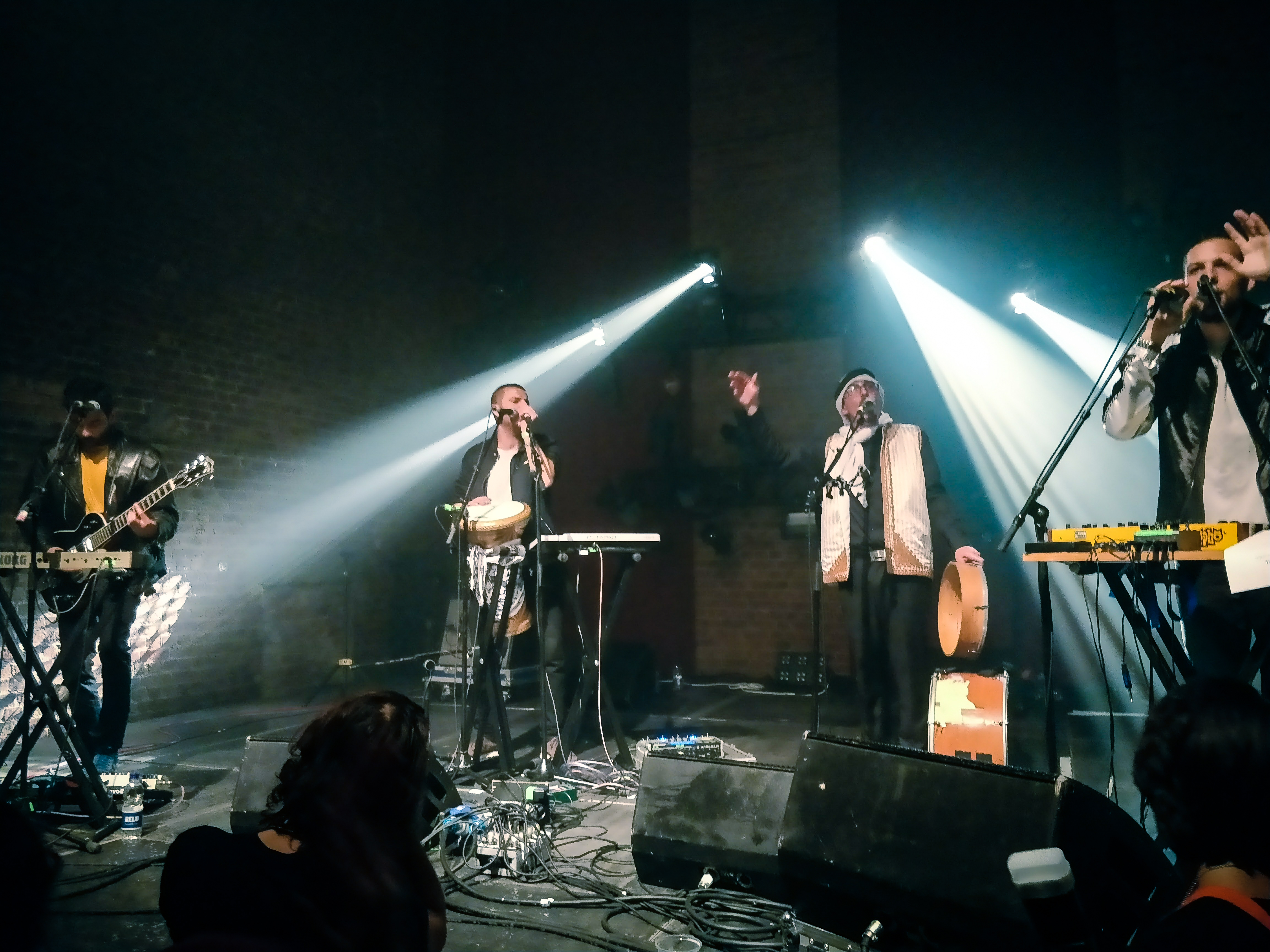 47Soul ‘Balfron Promise’ Pre-Launch Party. Band on-stage, left to right: Hamza Arnaout, Tareq Abu Kwaik, Walaa Sbeit, Ramzy Suleiman. Location: Village Underground, London (UK).